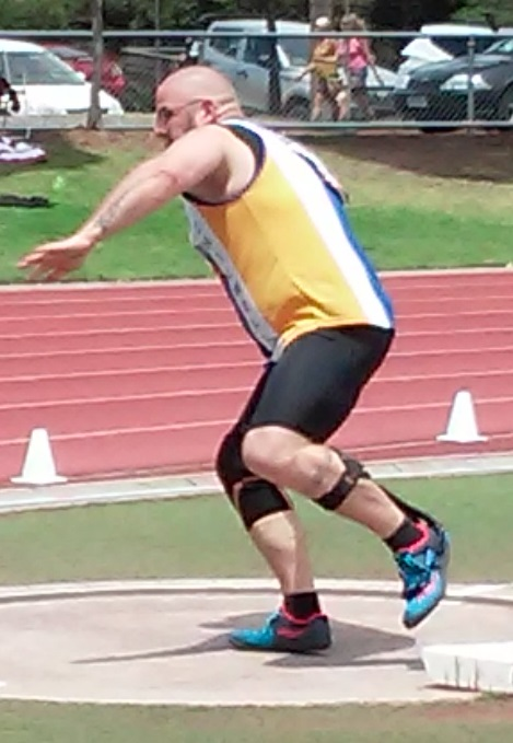 Martin Jackson Athlete 33